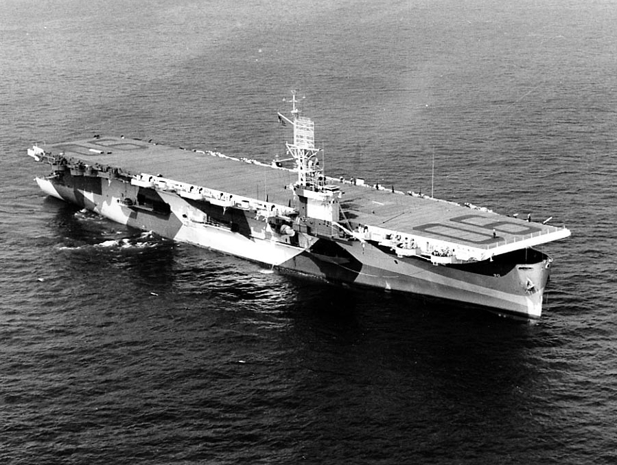 The U.S. Navy escort carrier USS Thetis Bay (CVE-90) on 7 August 1944. The ship is painted in Camouflage Measure 33, Design 10A.